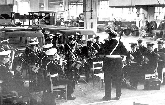 Helsinki Police Band playing in an opening ceremony of Vanajan Autotehdas new factory hall in 1957. The orchestra is lead by Georg Malmstén.